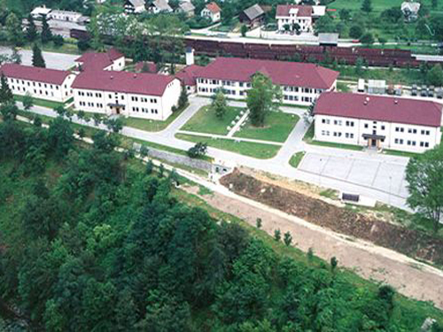 Vojašnica Bohinjska Bela